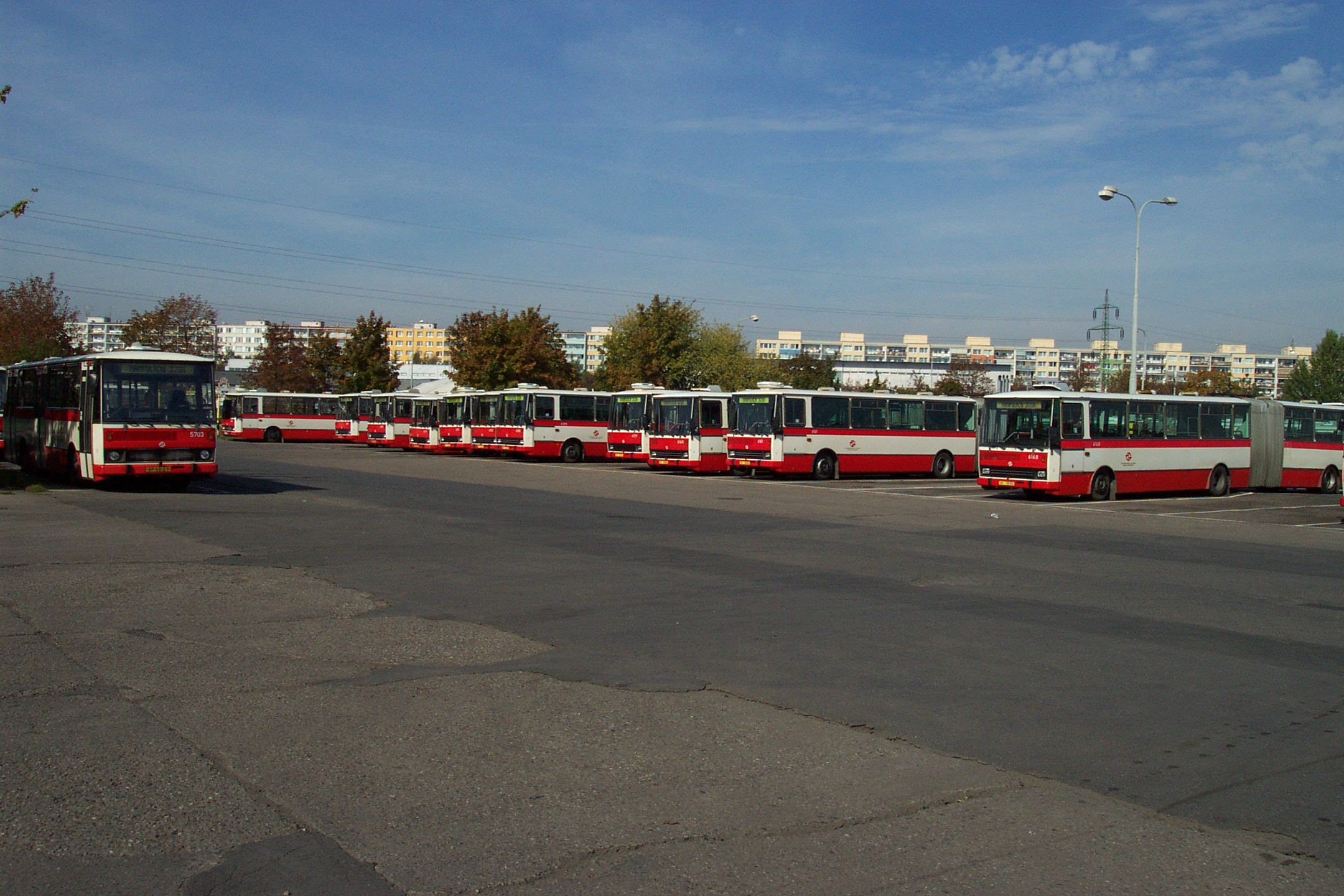 Klíčov bus garages in Prague during the opened doors day in september 2007.